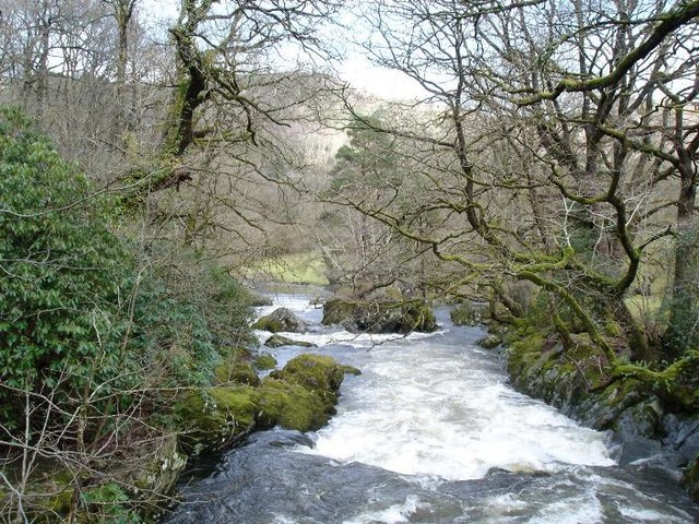 Afon Lledr. The river flowing under the stone bridge at Clogwyn Brith